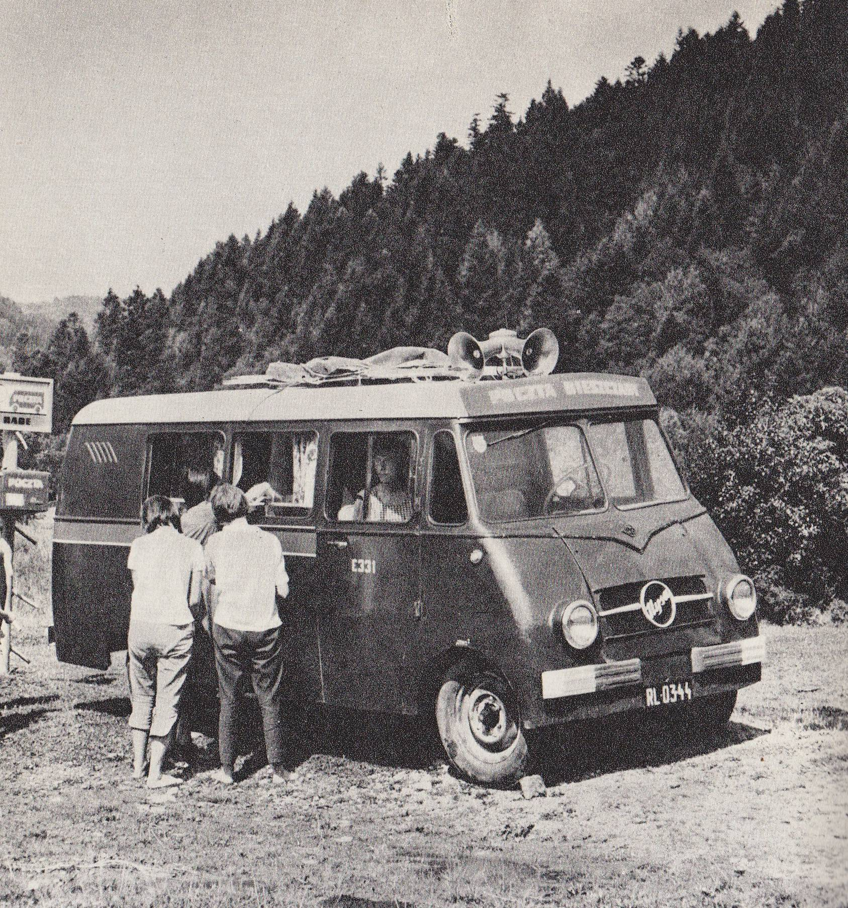 Post ambulance in Rabe (Bieszczady county).